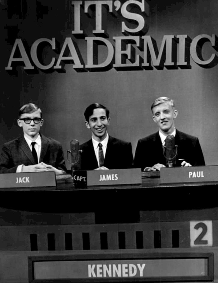 Photo from the WMAQ-TV program, It's Academic. The Chicago NBC owned and operated television station had the program on the air locally during the 1960s and 1970s. The photo is from 1967 and the team is from Chicago's Kennedy High School. Original caption: “WMAQ-TV PHOTO: Kennedy High School, 6325 W. 56th Street, Chicago, will be one of the contestants on "It's Academic"s first telecast of Chicago public high school competition. The program will be colorcast Saturday, January 6, 1968 (5:00–5:30 p.m. CST). Seated from left to right are team members Jack Protosevich, captain James Gian Francisco, and Paul Slusarski. 12/67”